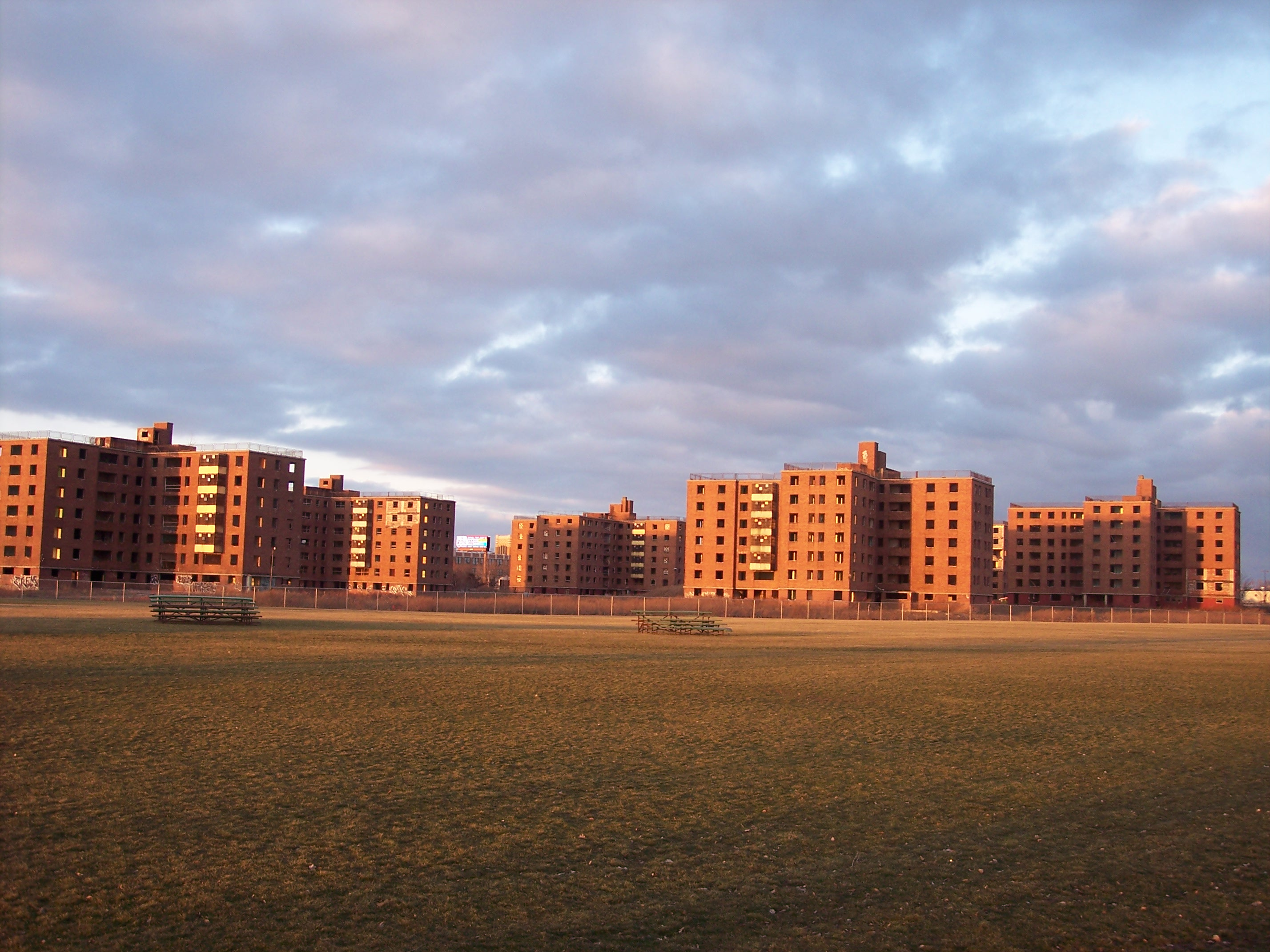 Kensington heights towers, also know as "Glenny Drive Apartments" public housing in Buffalo, New York (now demolished)